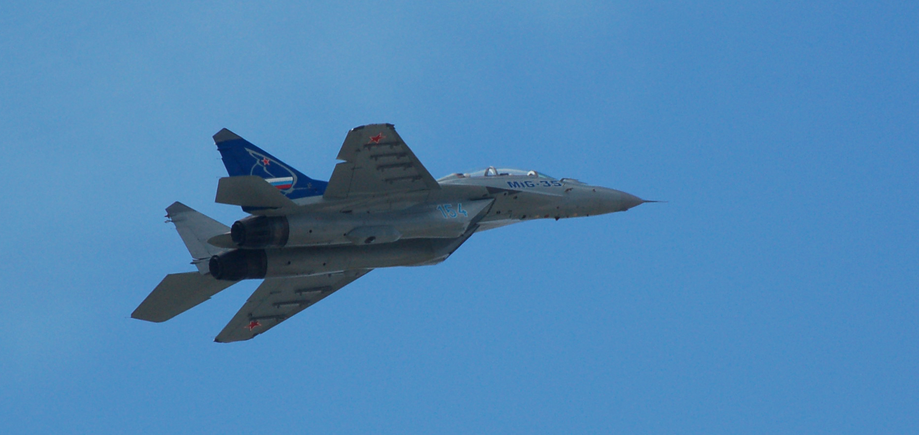 MiG-35 (the international aerospace salon MAKS-2007)